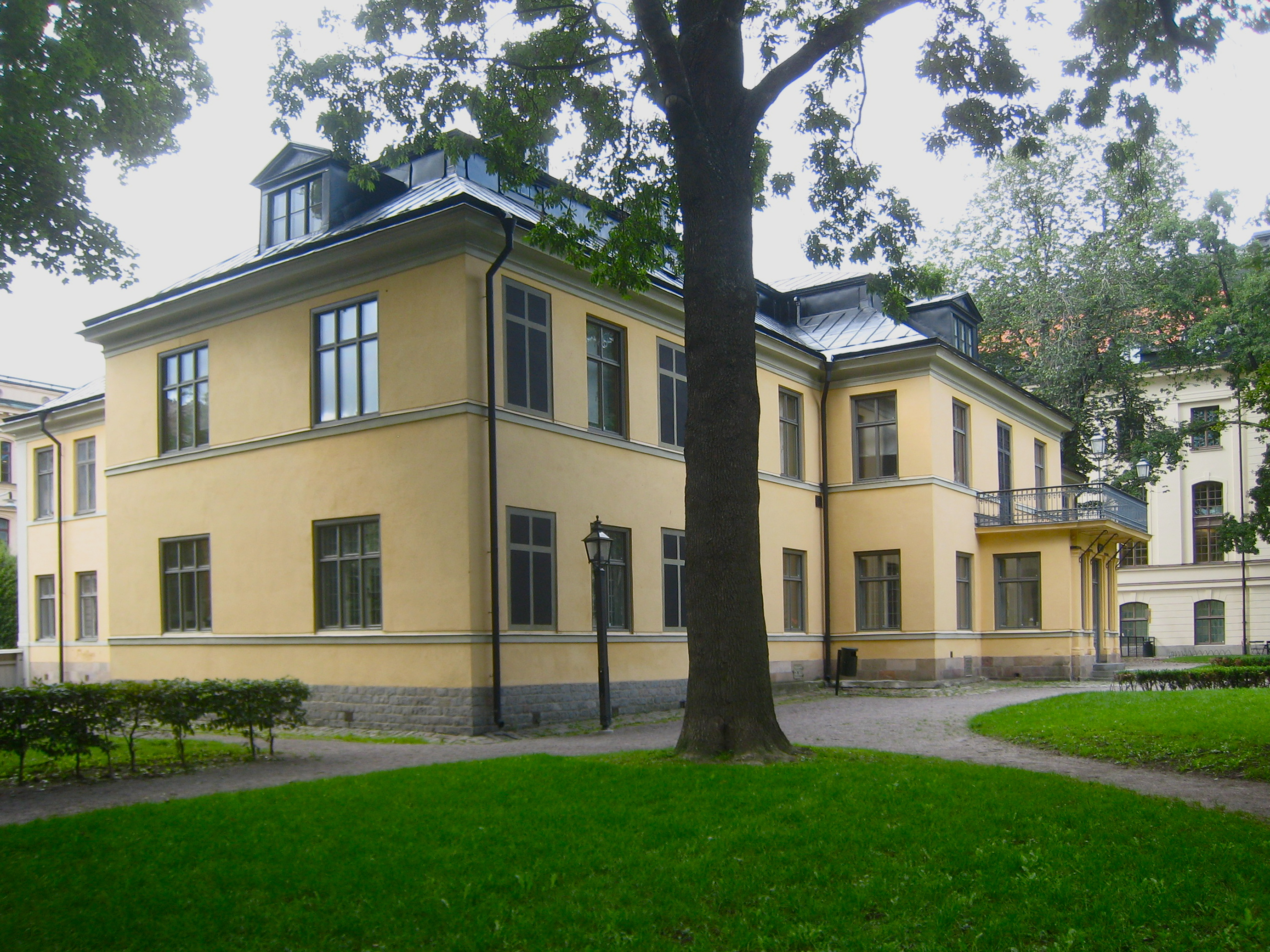 Schefflerska palatset, from Spökparken.